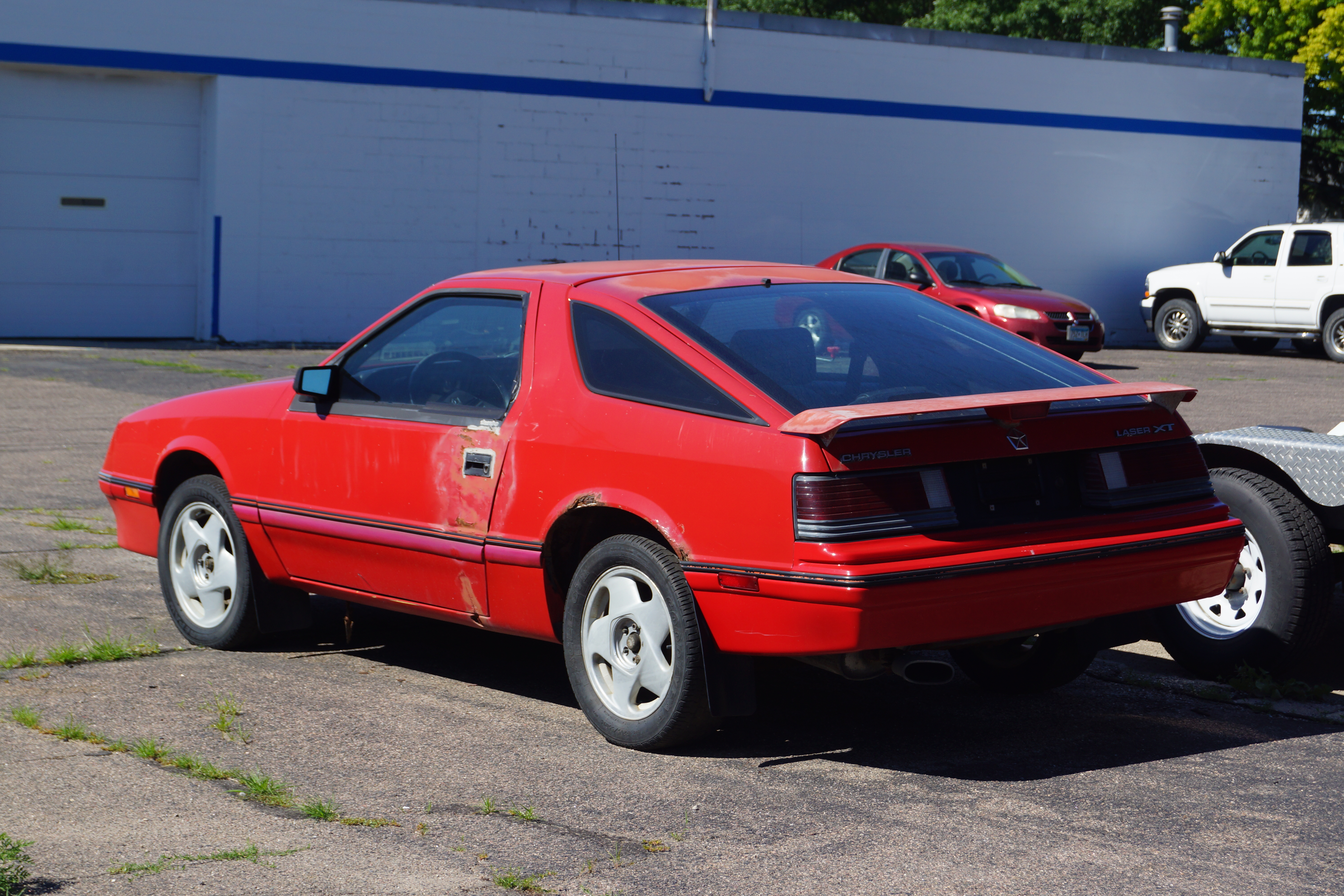 ******* Click here for previous Hastings Cruise Night pictures.. Click here for more car pictures at my Flickr site. Or here for my Car Crazy Tumblr site. Or on Twitter @DVS1mn.